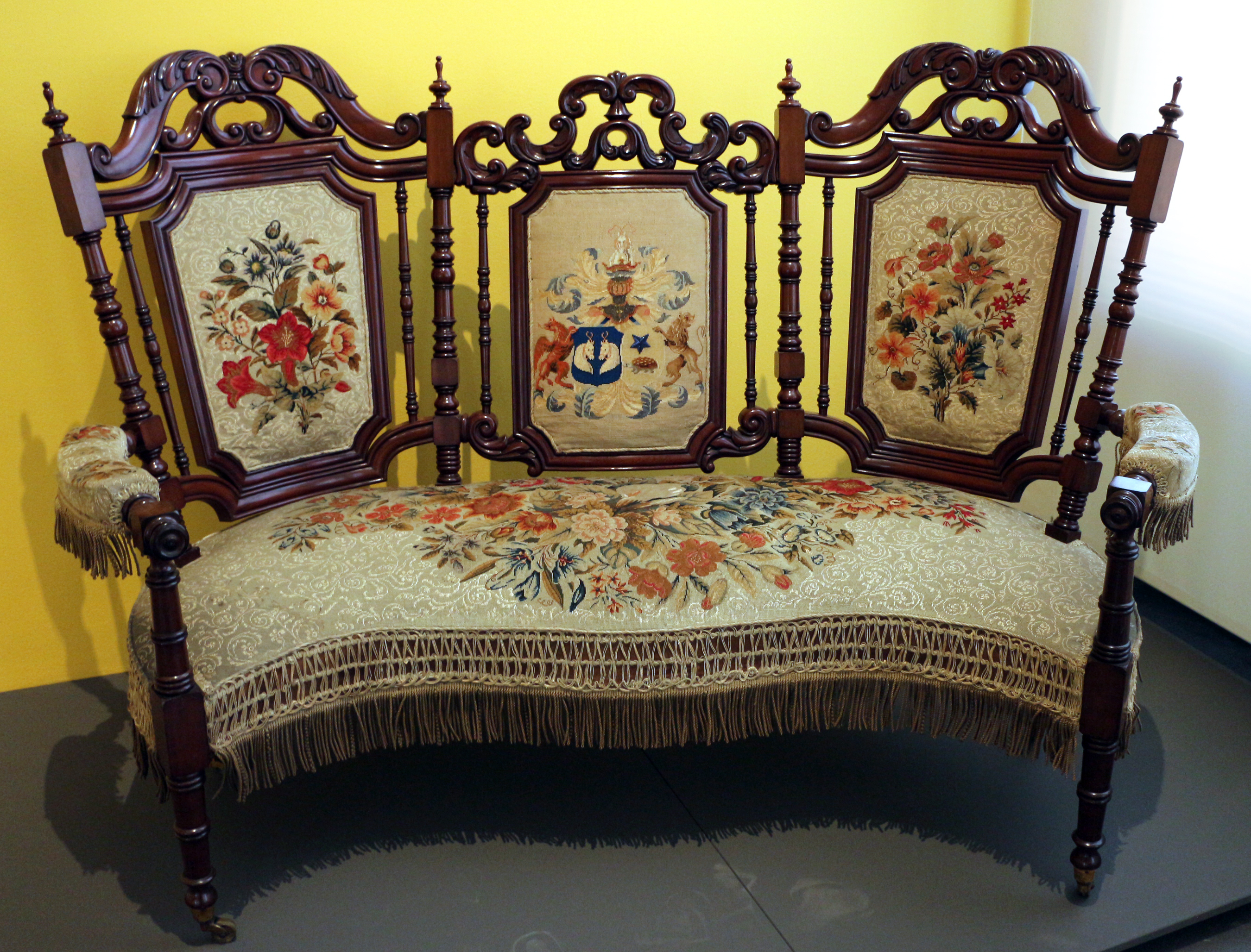 Pieter Christoffel Wonder exhibition in Centraal Museum (2016)